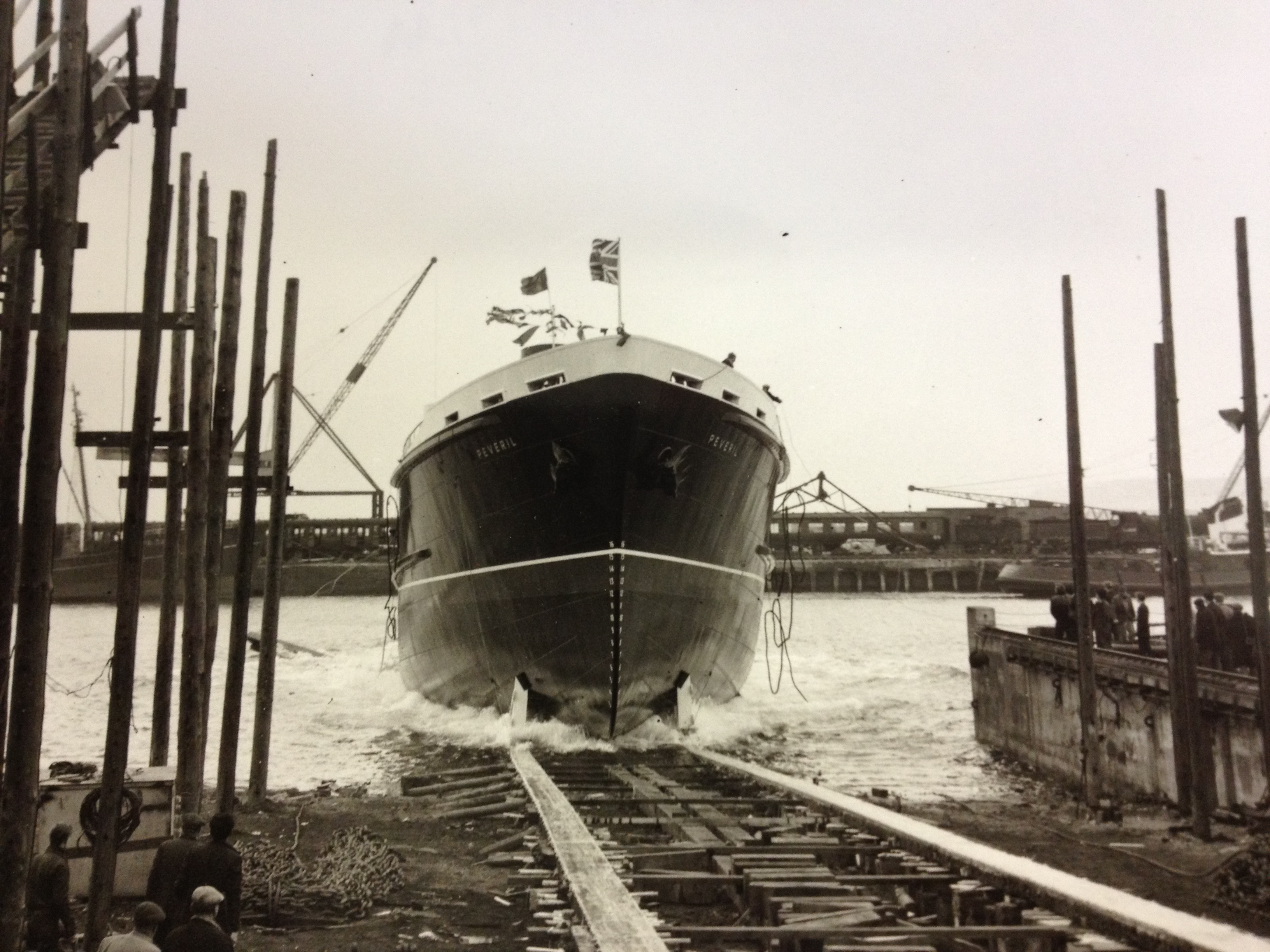 Isle of Man Steam Packet Company cargo vessel Peveril, is launched at Troon, Tuesday, 3 December 1963.